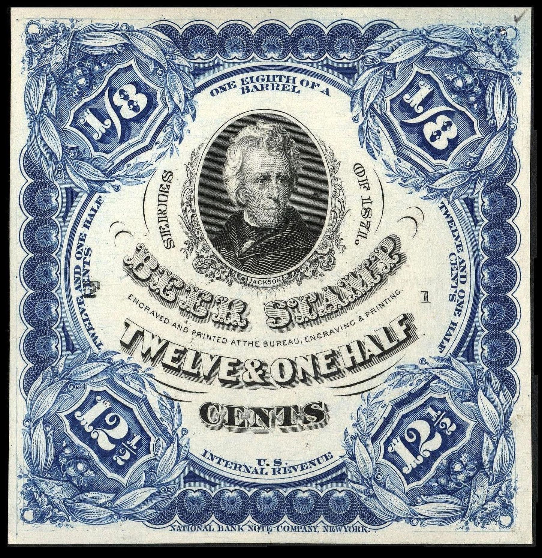 image of US Treasury beer tax stamp, 12 ½ c